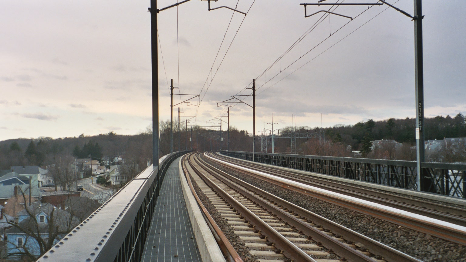 Canton Viaduct Top